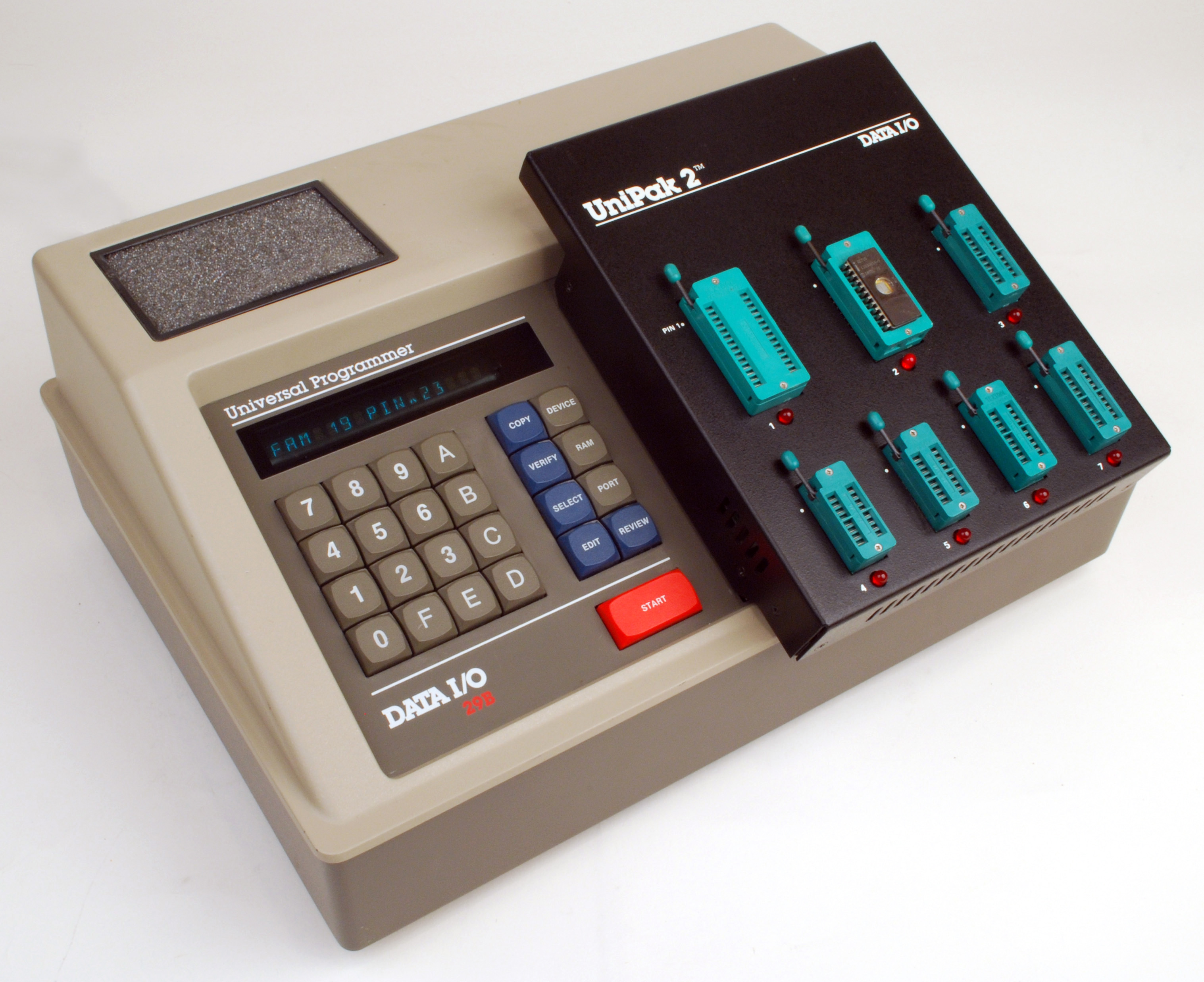 Data I/O 29B Universal Programmer (circa 1984). The 29B could hold several different plugin modules and is shown with UniPak 2 PROM module. The UniPak 2 could program virtually all Programmable Read Only Memory devices (fuse link and erasable) made at the time. The 29B used a Motorola MC6802 microprocessor and could connect to a terminal or computer via a RS-232C serial port.The 29B was introduced in 1984. Its predecessor, the System 19, was introduced in September 1978. The original UniPak was introduced in 1980 and UniPak 2 in January 1983. Over 10,000 of the systems were sold. Data I/O annual reports give the sales of the Model 29 and UniPak as $18 million in 1983 and $28 million in 1985. This system cost between $5000 and $7000 depending on options (1988 price list). Photo by Michael Holley (2008) with a Nikon D60 DSLR under tungsten lighting.